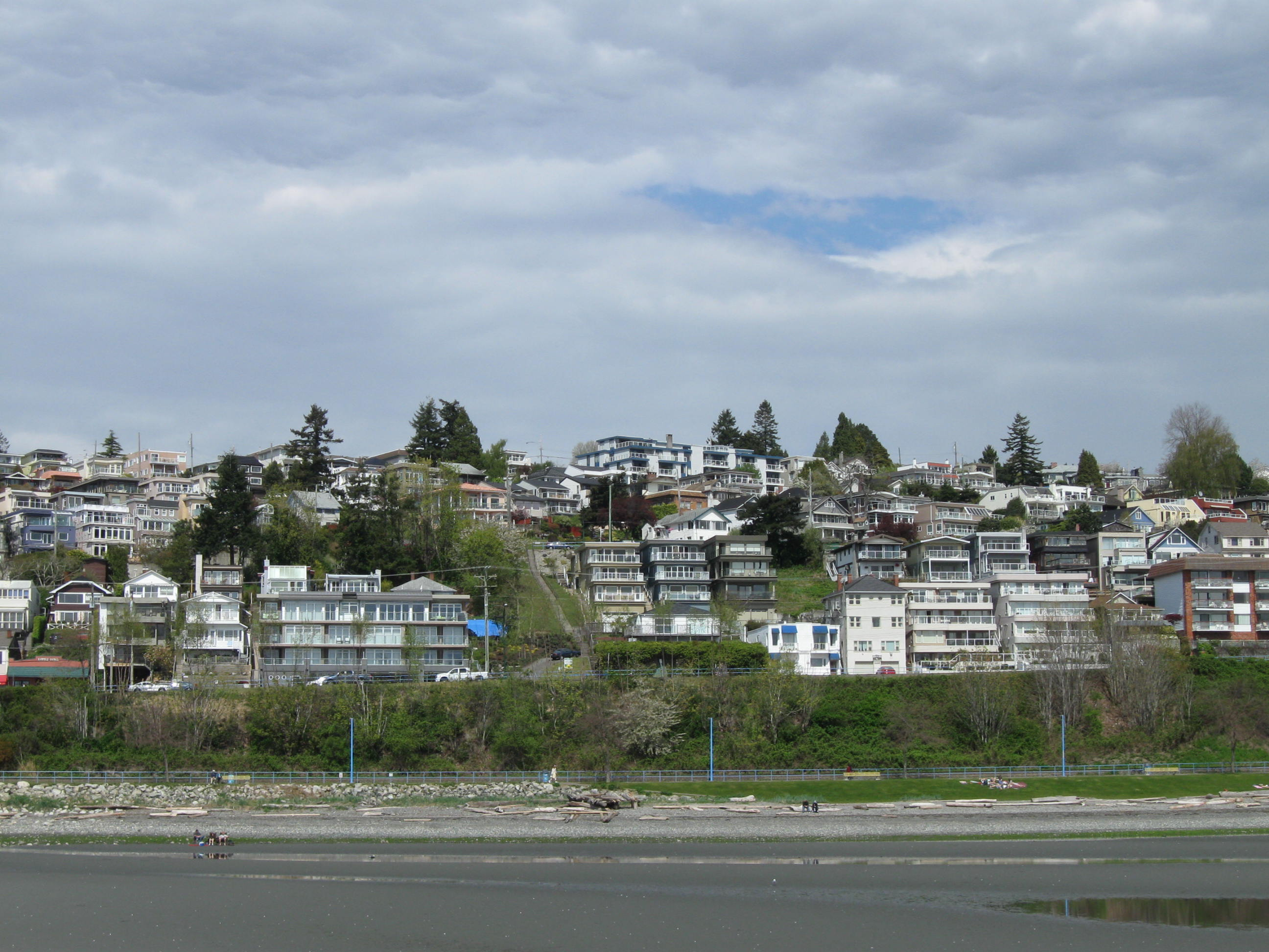 This is a north facing view of homes in the City of White Rock, BC, Canada. It was taken by me from the vantage point of the White Rock Pier in Semiahmoo Bay.